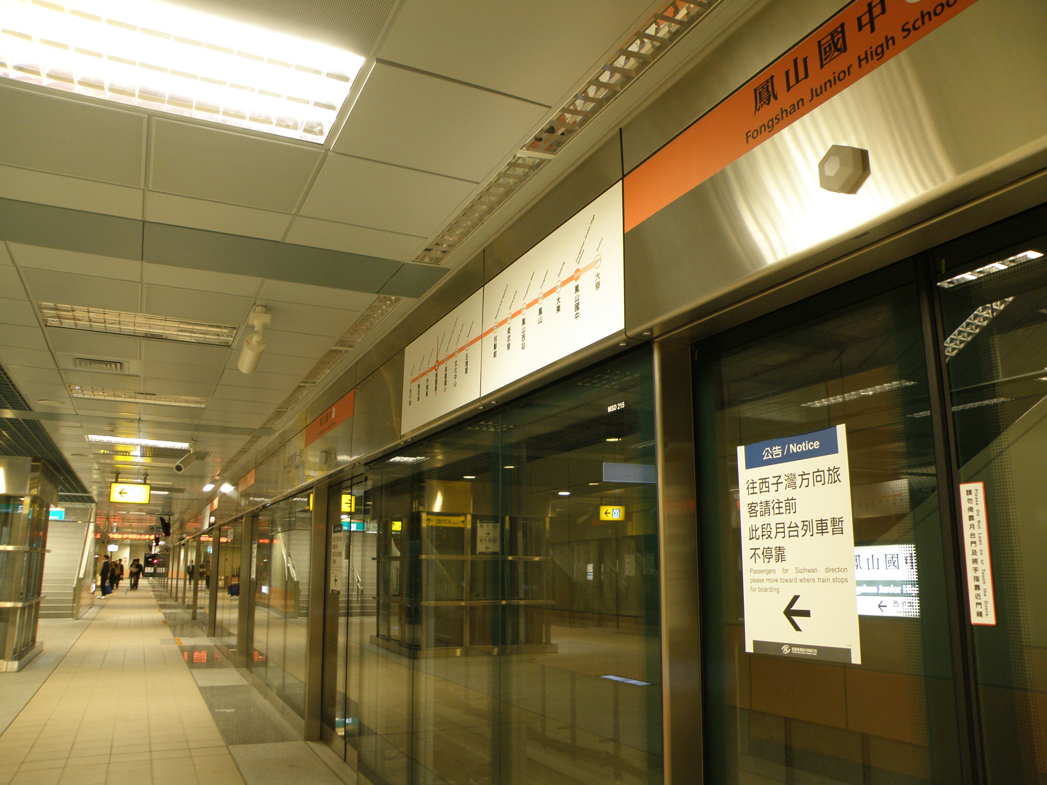 Platform of Fongshan Junior High School Station, Kaohsiung Mass Rapid Transit.